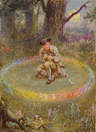 The Fairy Ring; the Enchanted Piper; oil on board; 9.00 × 12.50cm (3.54 inches × 4.92 inches)